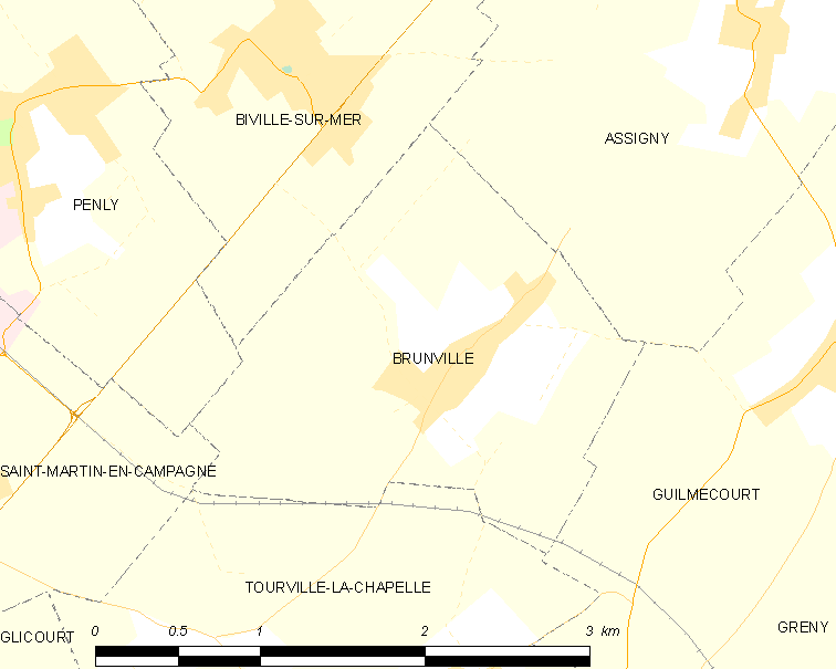 Map of French municipality Brunville